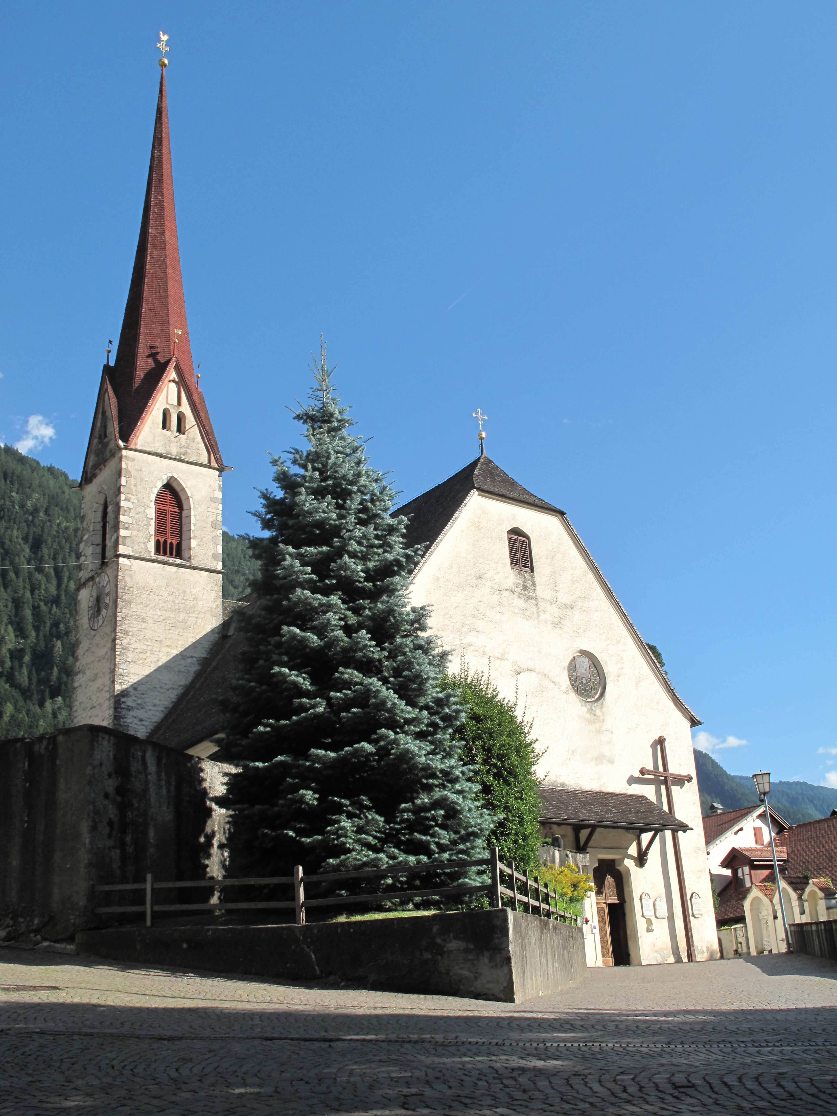 Sankt Leonhard in Passeier, church